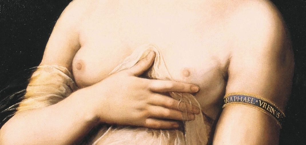 La Fornarina detail